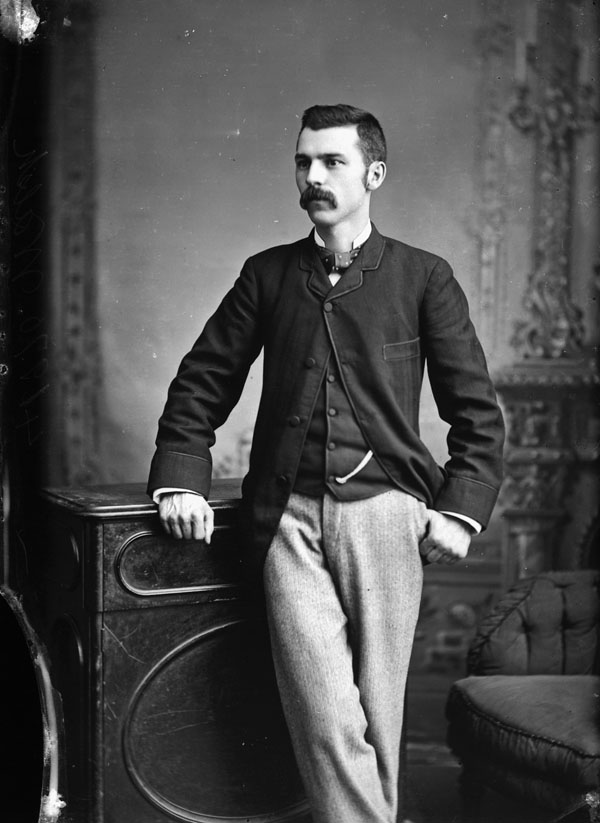 James Morrow Walsh.